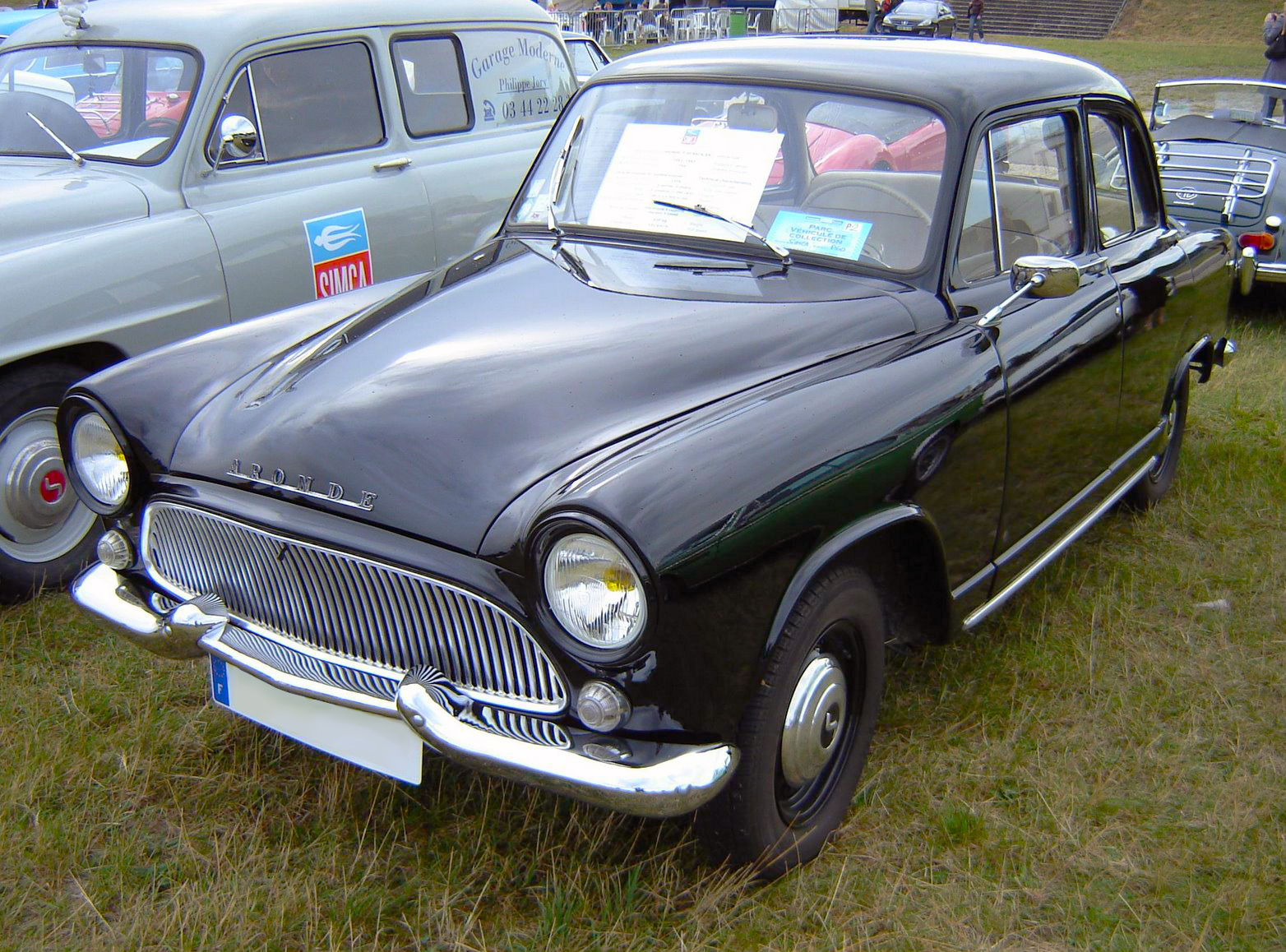 1959 Simca Aronde "Bacalan" at the Autodrome de Linas-Montlhéry, 2009. The model of what was to become the Aronde P60 was approved on 13 March, 1957. A pilot series of 750 copies was built in 1958, but when shown to Simca's CEO, he was outraged and ordered them to disappear immediately. The unfortunate cars were sent to Bordeaux, Bacalan dock, for storage. An agreement was reached to send about 500 of them to Hungary and Czechoslovakia, and another 100 cars for Germany. The remaining 150 copies ended up being sold towards the end of 1959 to Simca employees, with a little makeover in order not to arouse suspicion, and with a formal prohibition of reselling them - promising instead to bring them back to Poissy, most certainly to be destroyed!